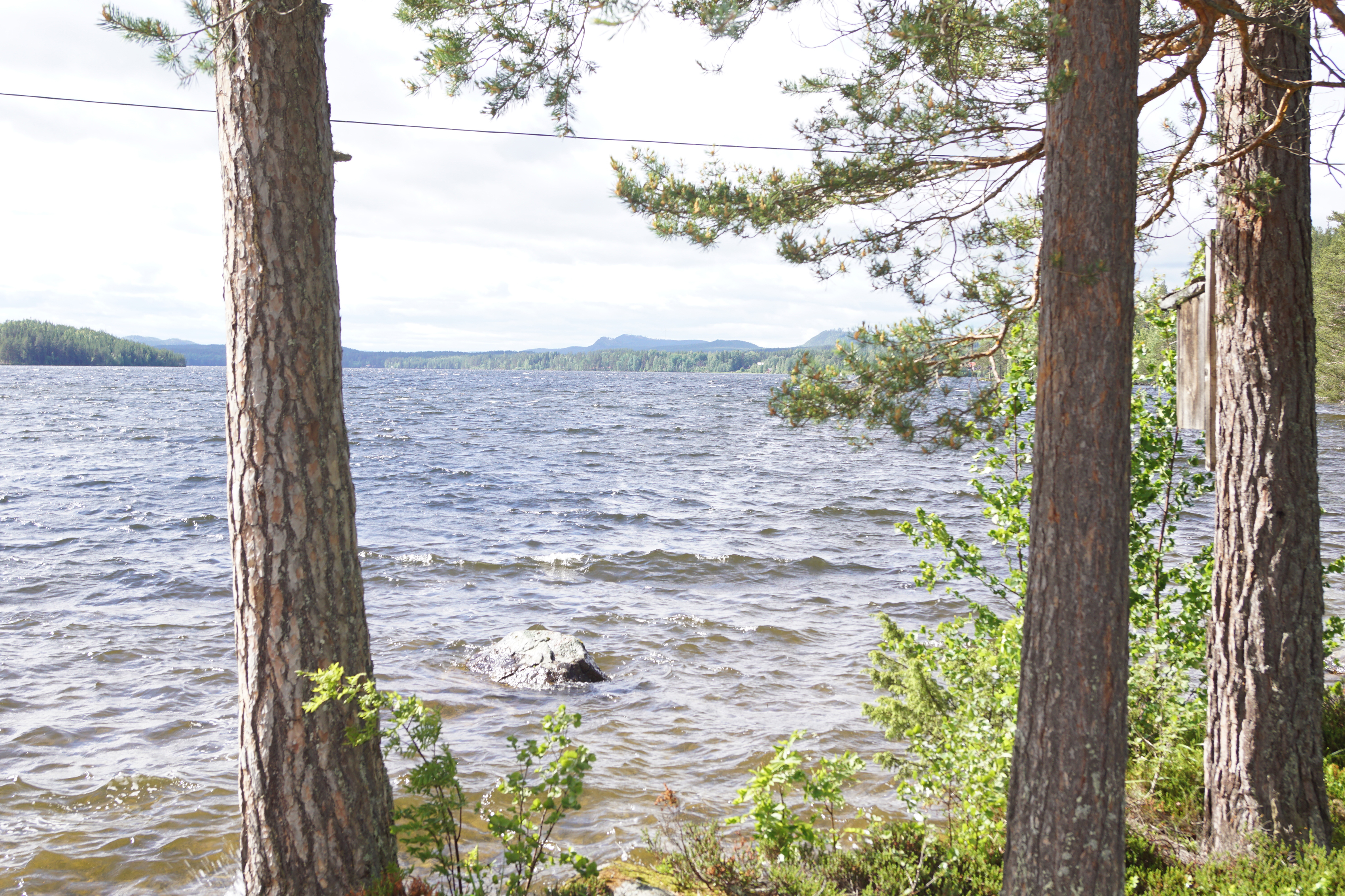 Hölesjön, a lake in Bollnäs Municipality, Sweden.